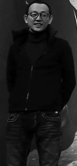 Pyo Min-soo South Korean director